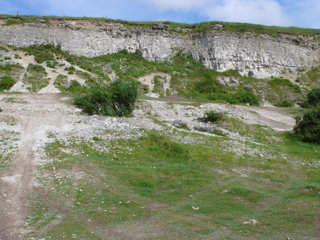 Old Quarry , Chalbury A disused quarry on the western side of Chalbury hill fort.